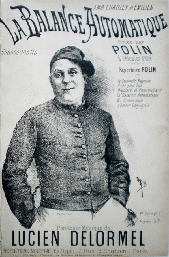 Cover art of French music-hall song